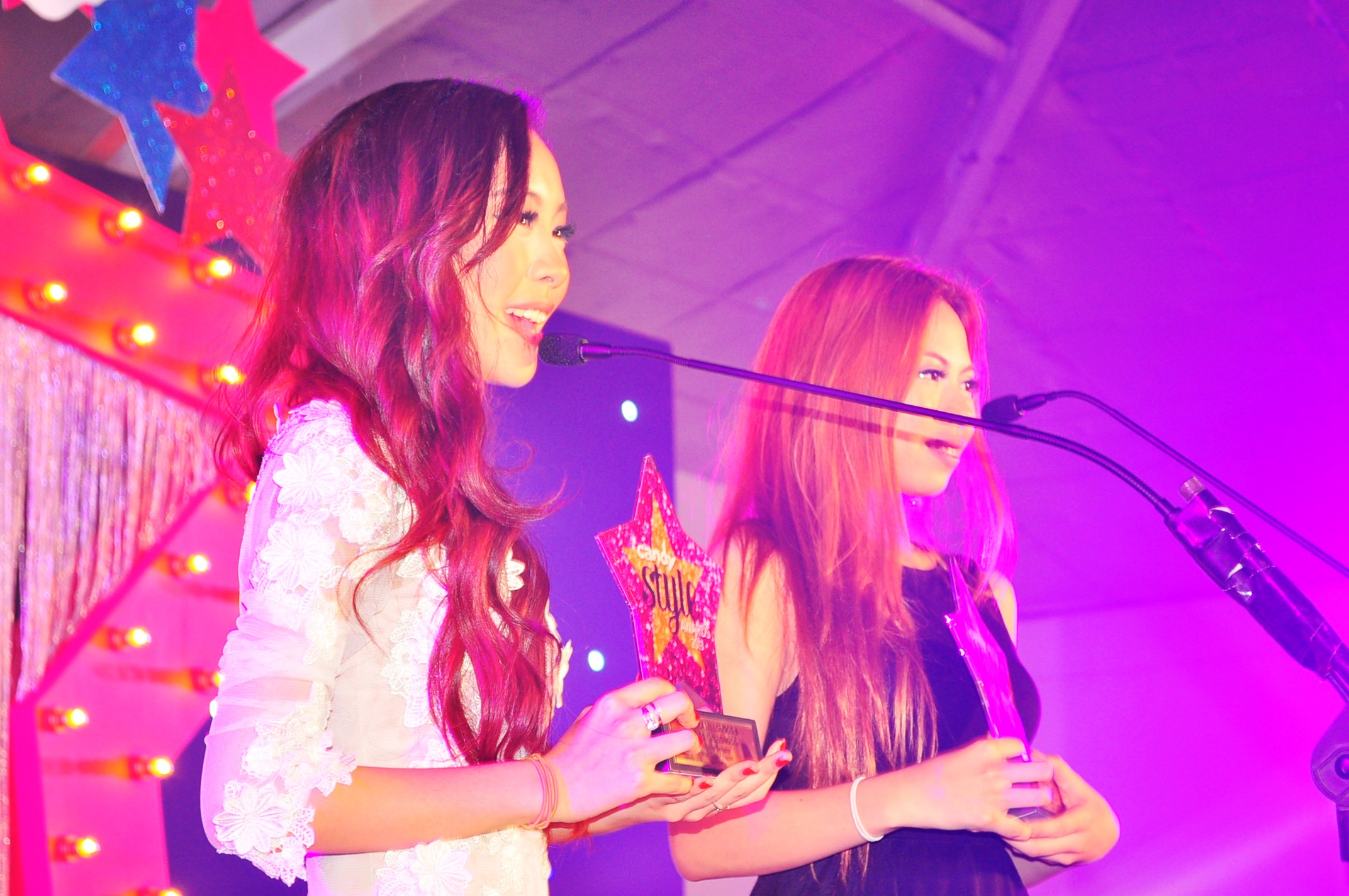 Philippine singers Ericka & Krissy Villongco at the 2013 Candy Style Awards.